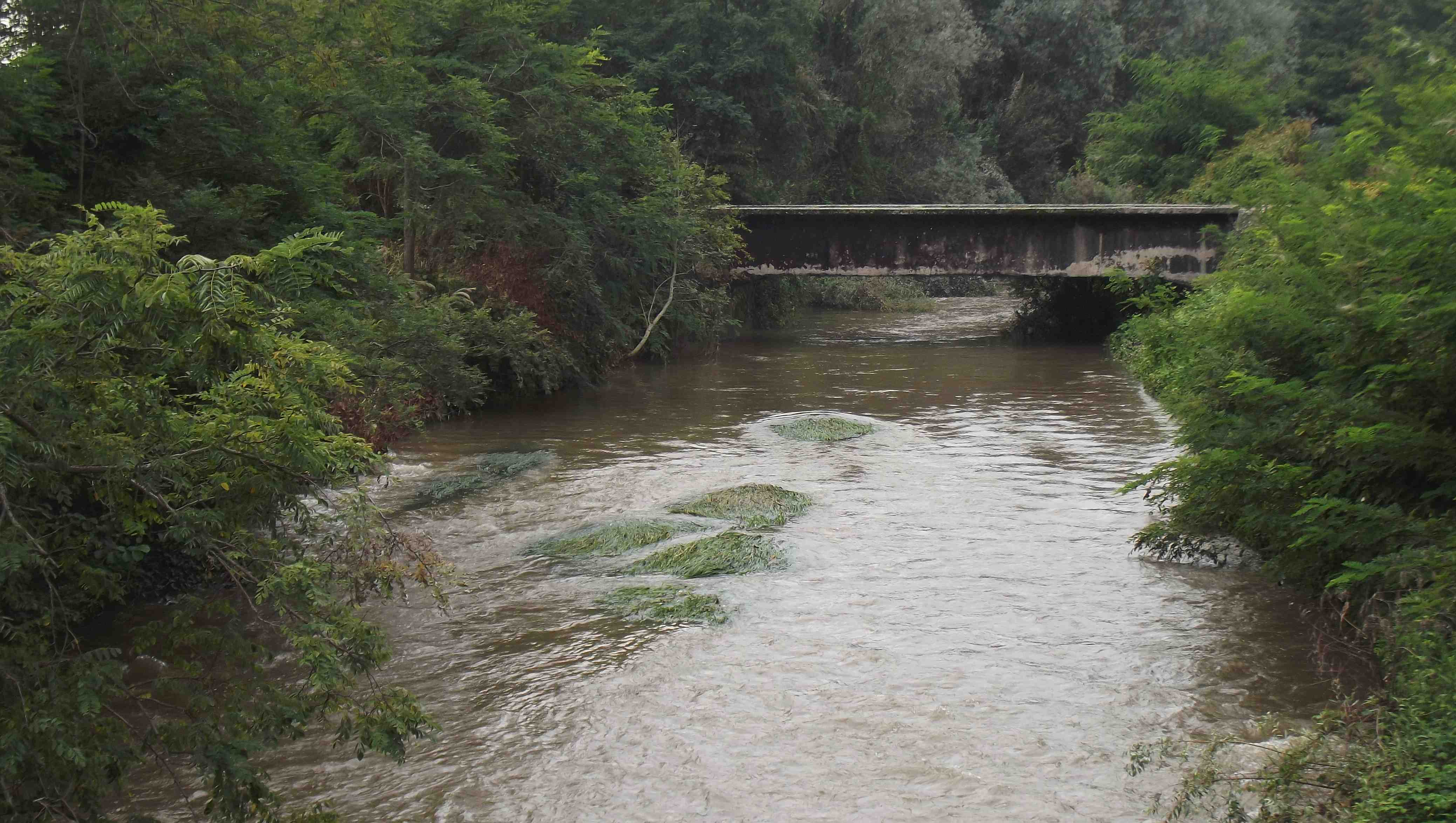 Ottina near Villanova Biellese (BI, Italy)